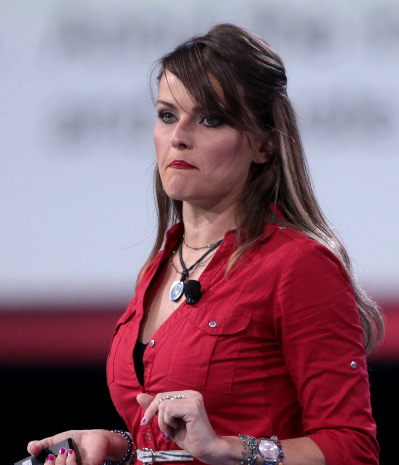 Gloria Alvarez speaking at the 2016 Conservative Political Action Conference (CPAC) in National Harbor, Maryland.